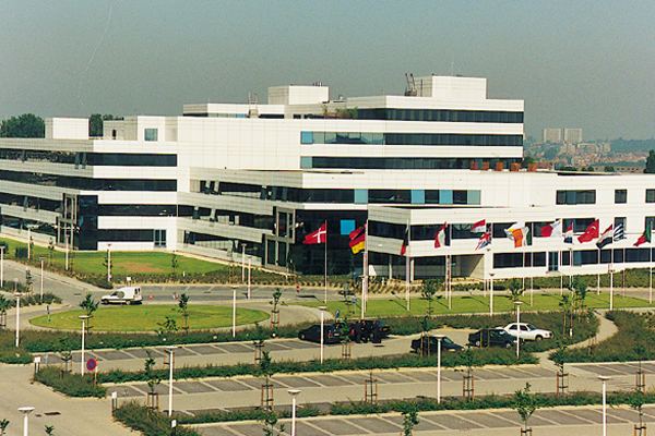 Head office of Eurocontrol